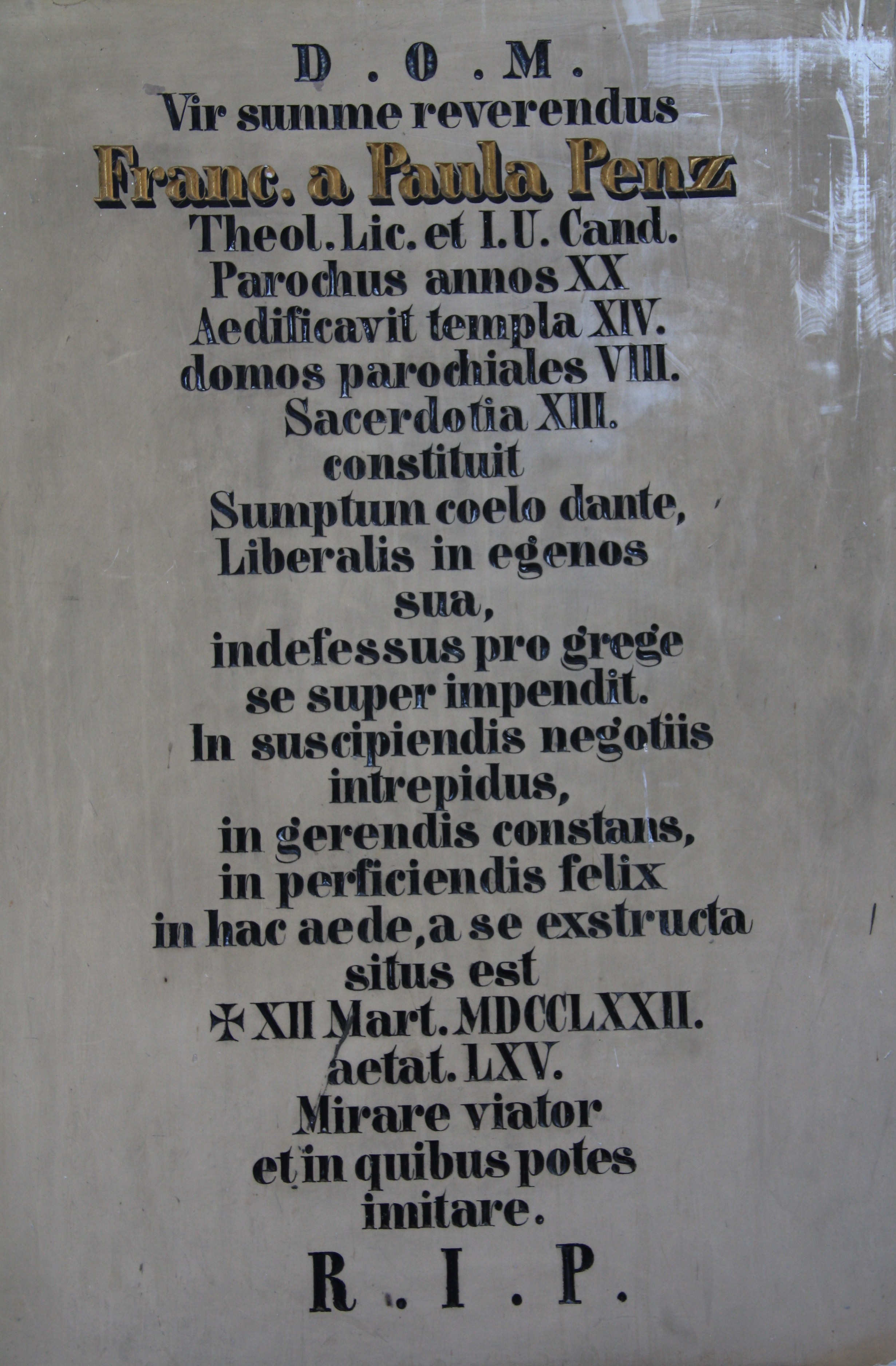 Austria, Tyrol, Telfes, Hl. Pankratius. The placque to Franz de Paula Penz who planned the church and died in Telfes im Stubai on March 12, 1772.